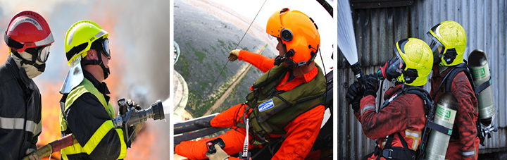 First responder